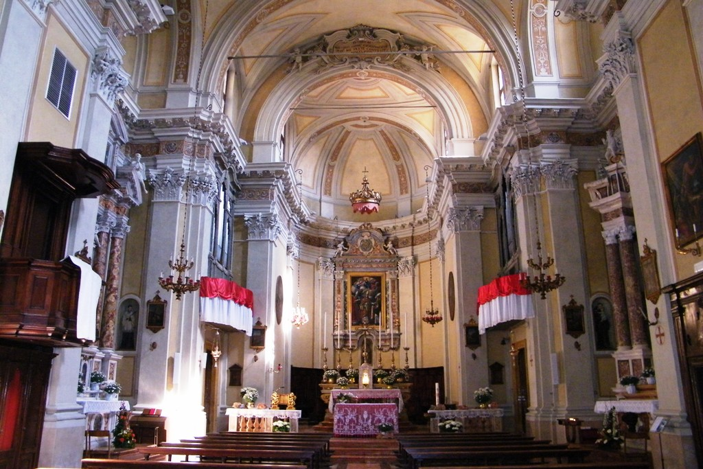 Inside. Church of St Martin. Moniga del Garda